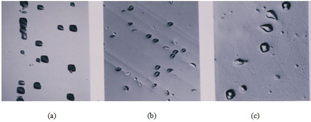 The Wright etch consistently produces well-defined etch figures of common defects on silicon surfaces.